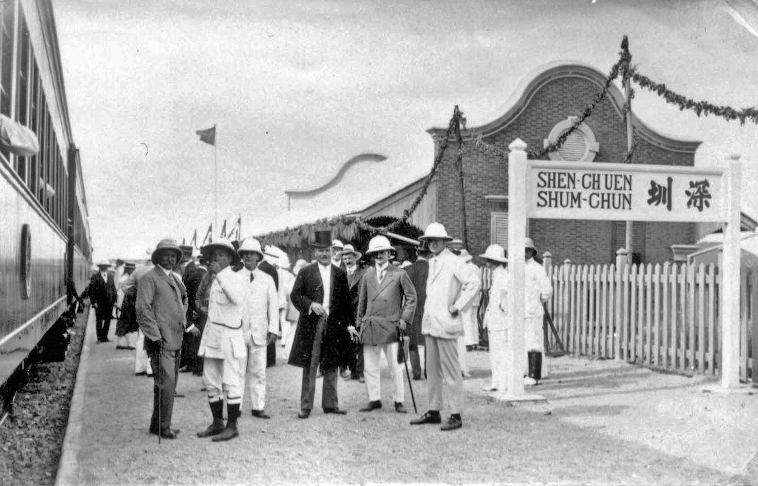 Opening of Chinese Section of the Canton-Kowloon Railway in October 1911. The first train arrived Shum Chun (now Shenzhen) Railway Station.